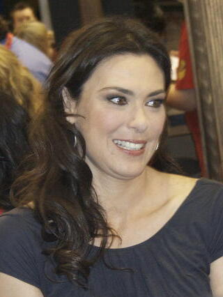 Actress Michelle Forbes at 2009 Comic-Con International - "True Blood" panel.